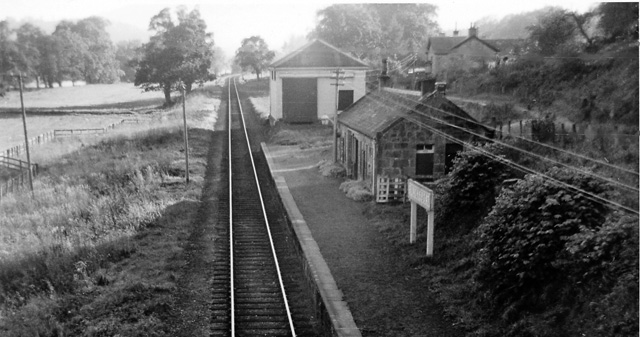 Blacksboat Station. View SW, towards Boat of Garten; ex-GNS Craigellachie - Boat of Garten line. Station and line closed 18/10/65.